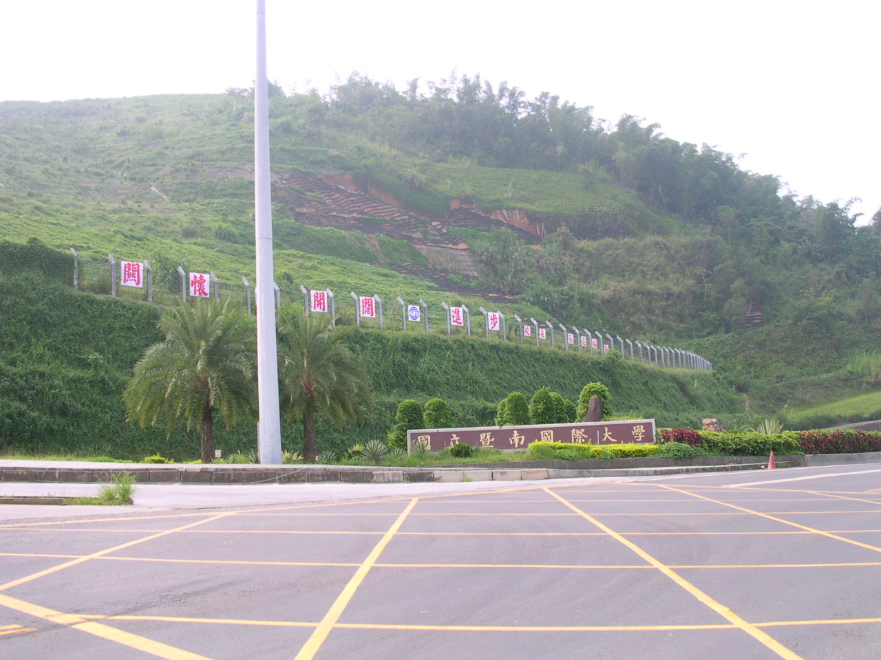 this photo taken by vegafish